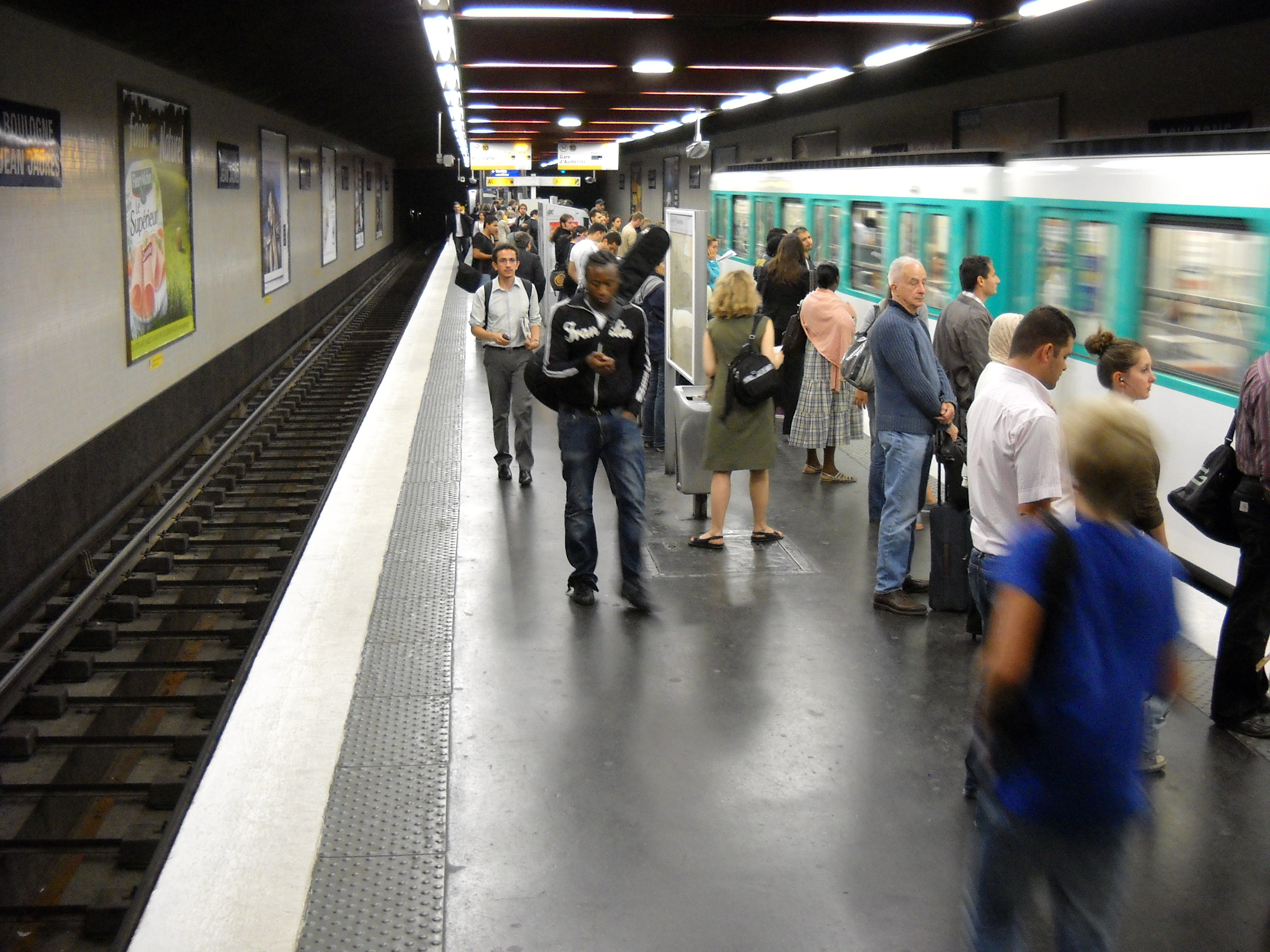 Boulogne-Jean Jaurès station, on Paris metro line 10.